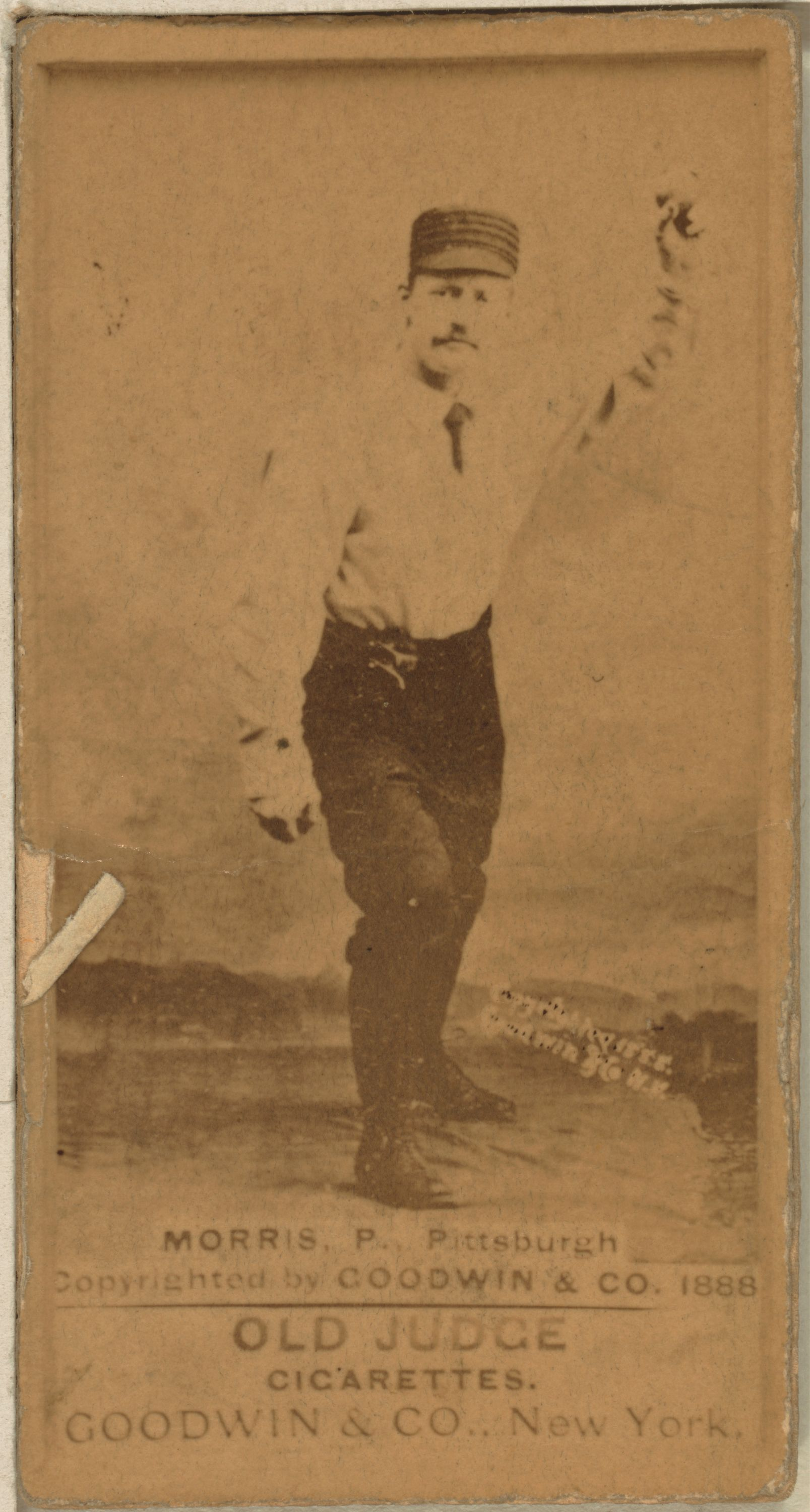 Ed Morris